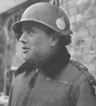 Anthony Clement McAuliffe